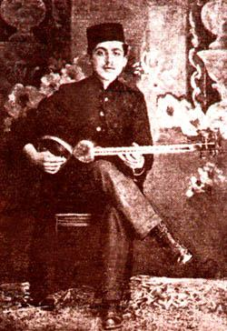 Morteza Neydavood, the Iranian master composer and tar player.